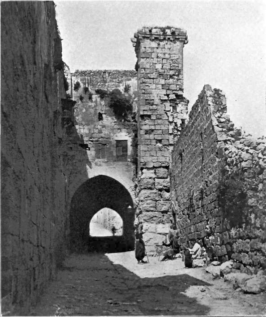 Old Jerusalem, The tower of Antonia 1887